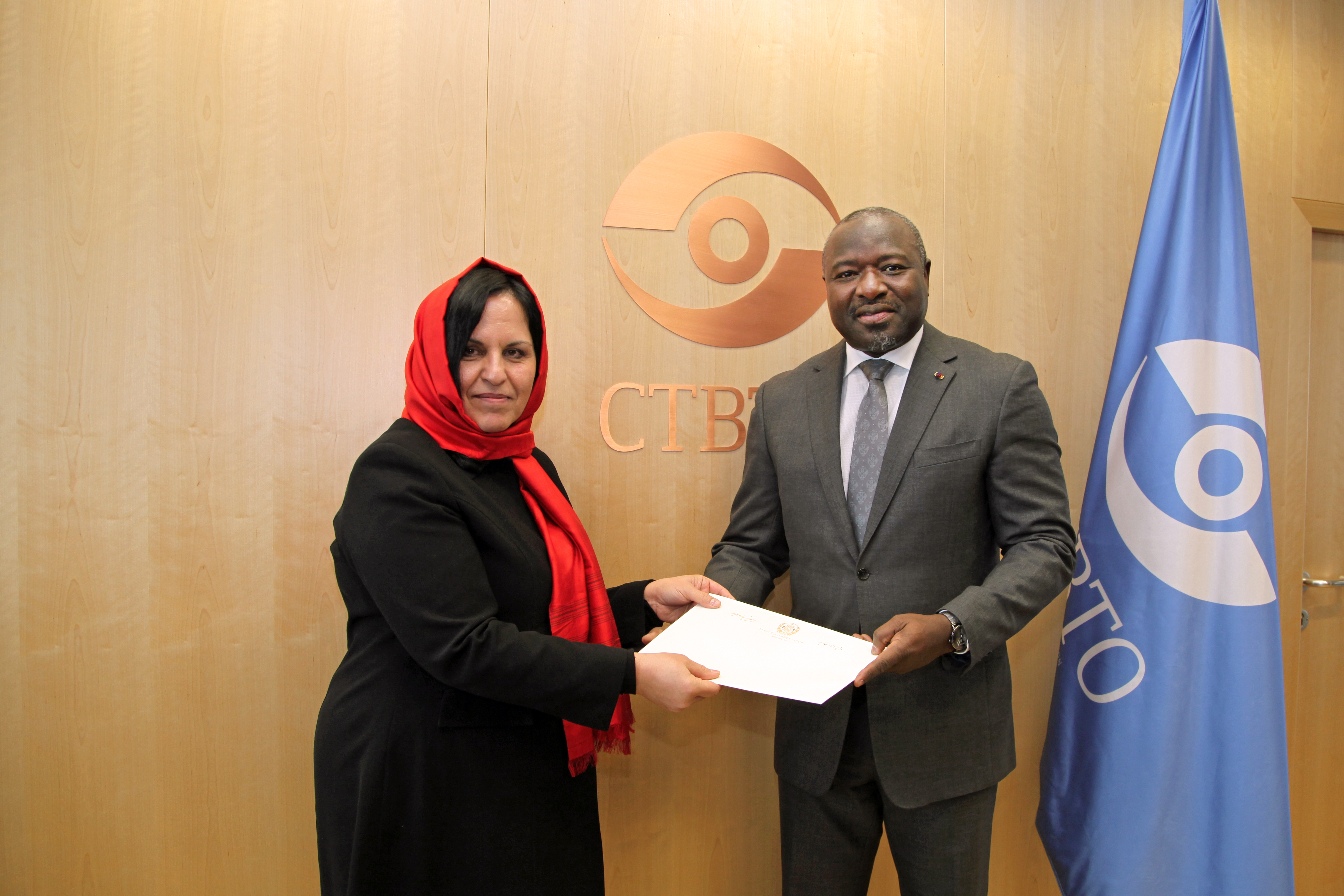 HE Ms Khojesta Fana Ebrahimkhel, Permanent Representative of Afghanistan, presents her credentials to Dr Lassina Zerbo, Executive Secretary of CTBTO, 30 November 2017